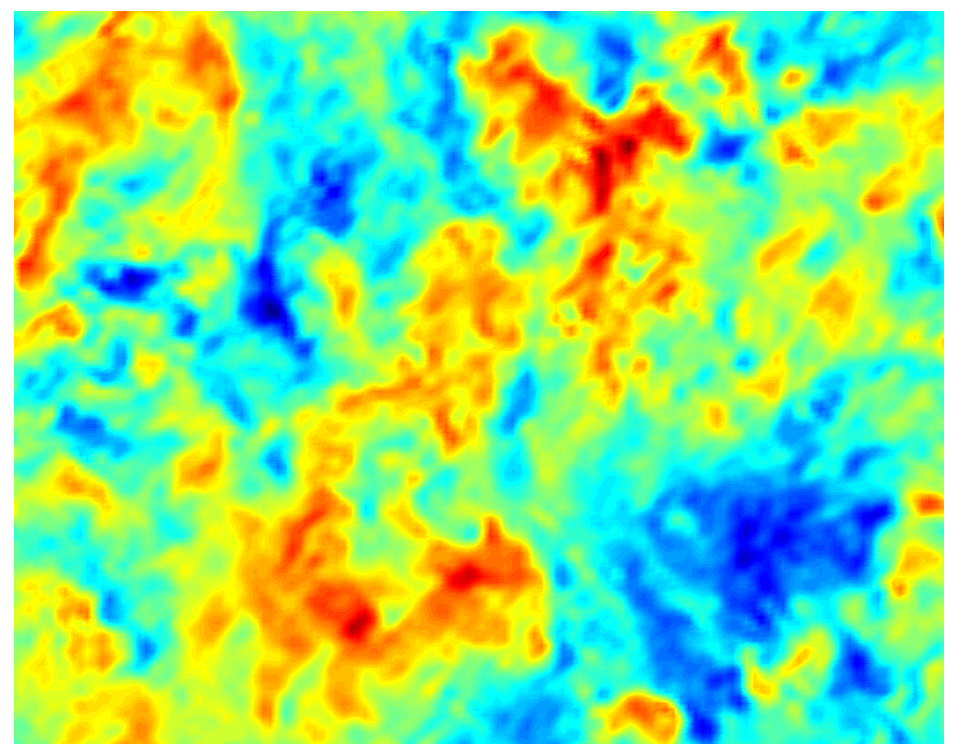 Velocity field from a DNS simulation of homogeneous decaying turbulence in a periodic box. DNS data is from Lu and Rutland.[1] ↑ Lu, Hao (2008). "A priori tests of one-equation LES modeling of rotating turbulence". International Journal of Modern Physics C 19 (2): 1949-1964.